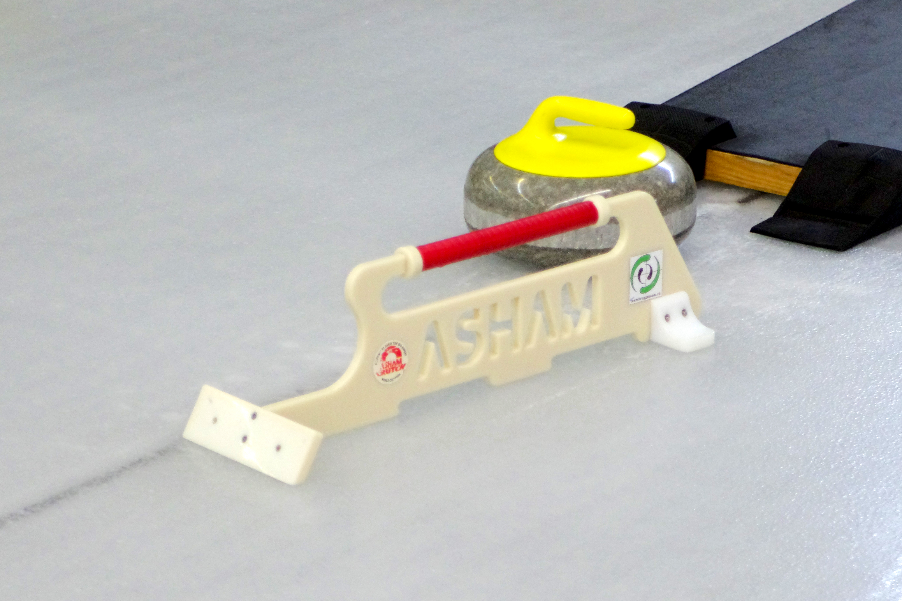 Swisscurling League 2012/2013 - Round 2 - Geneva